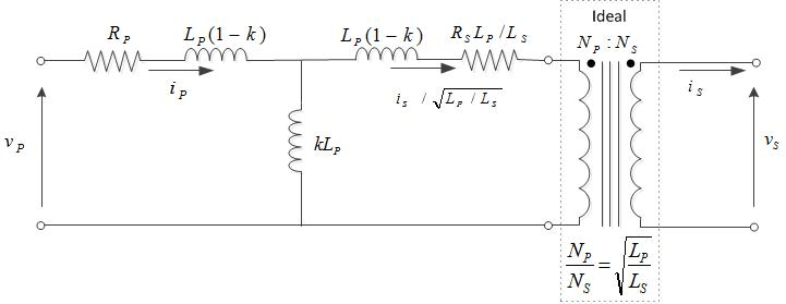 Transformer equivalent circuit with Heyland factor constants expressed in terms of coupling coefficient k.